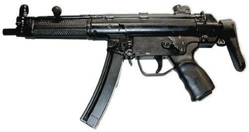 Author:Cyril Thomas